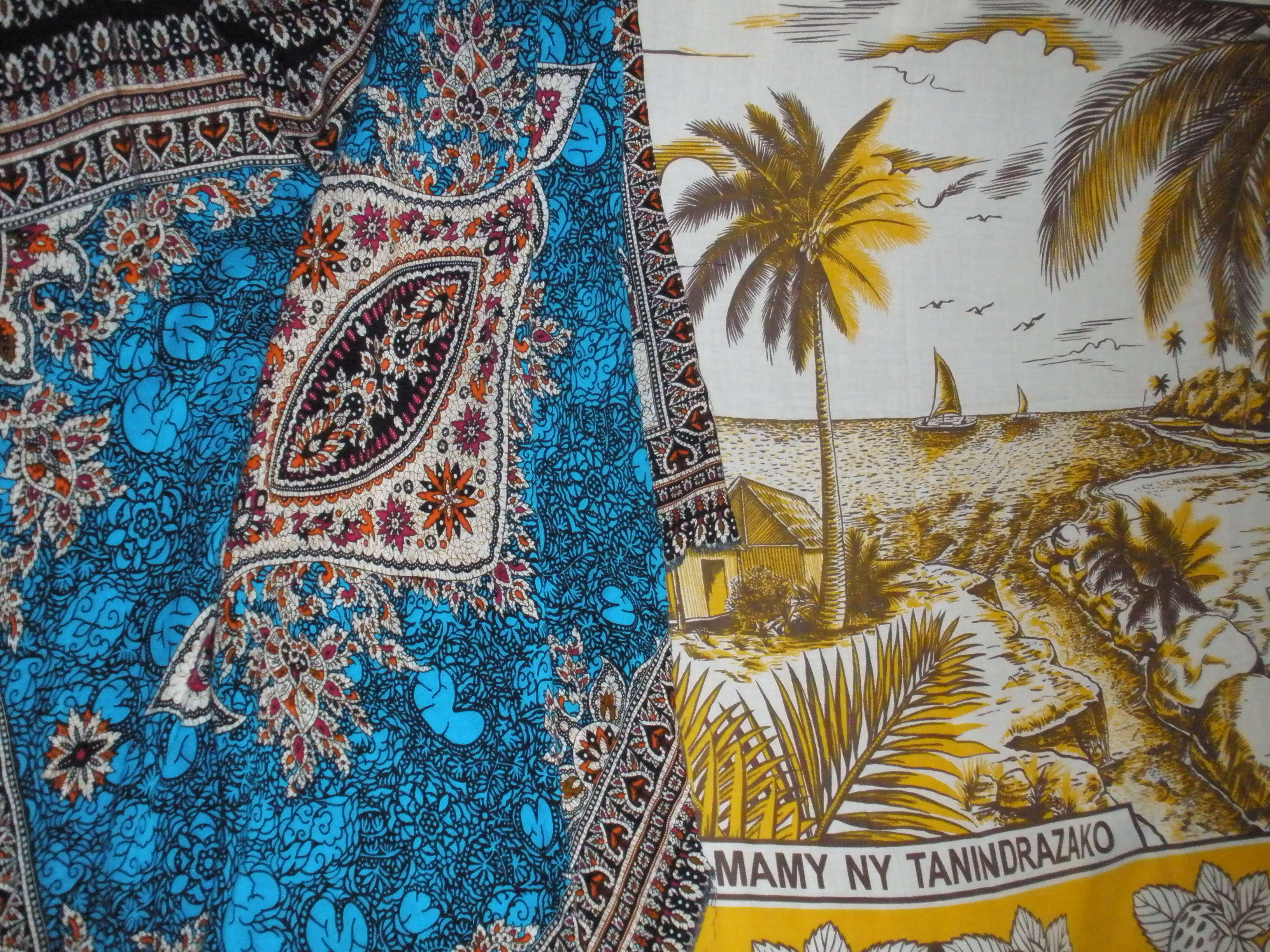 Photo by Lemurbaby (talk) 18:35, 29 September 2010 (UTC).